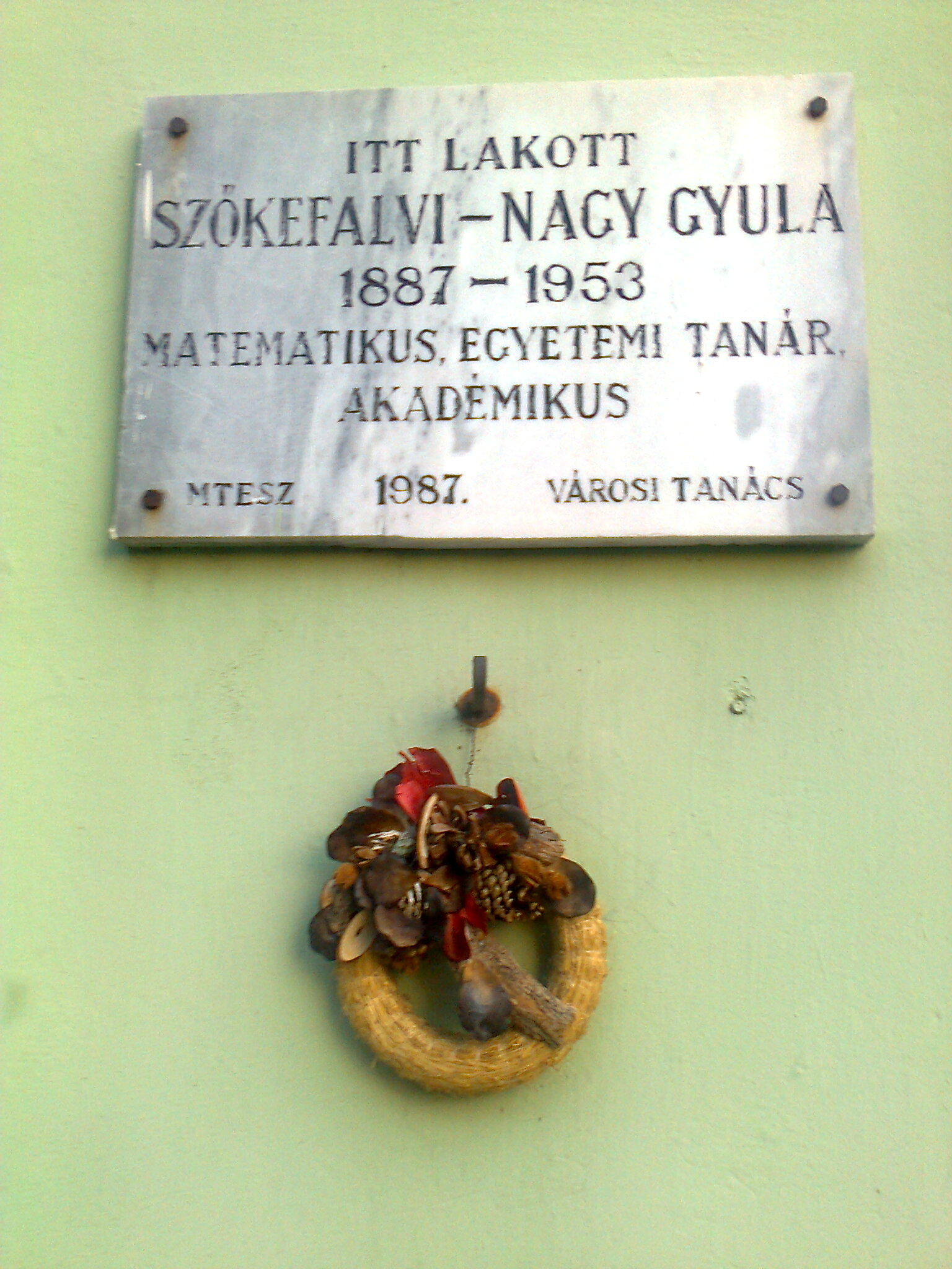 Memorial plaque on the Szőkefalvi-Nagy Gyula's house in Szeged (Hungary)